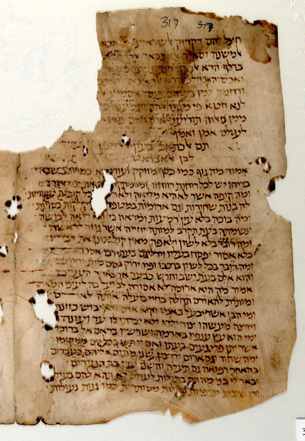 This is an image of fol. 2v from University of Pennsylvania Center for Advanced Judaic Studies Library Halper 317, Philological essay (Orient, 0900 - 1199). Lines 21 to the end are a set of ten verse riddles attributed to Dunash ben Labrat, edited by Nehemya Aluny, 'Ten Dunash Ben Labrat's Riddles', The Jewish Quarterly Review, New Series, 36 (1945), 141-46.